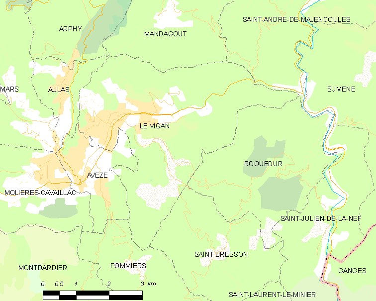 Map commune FR insee code 30350.png - Le Vigan (Gard)